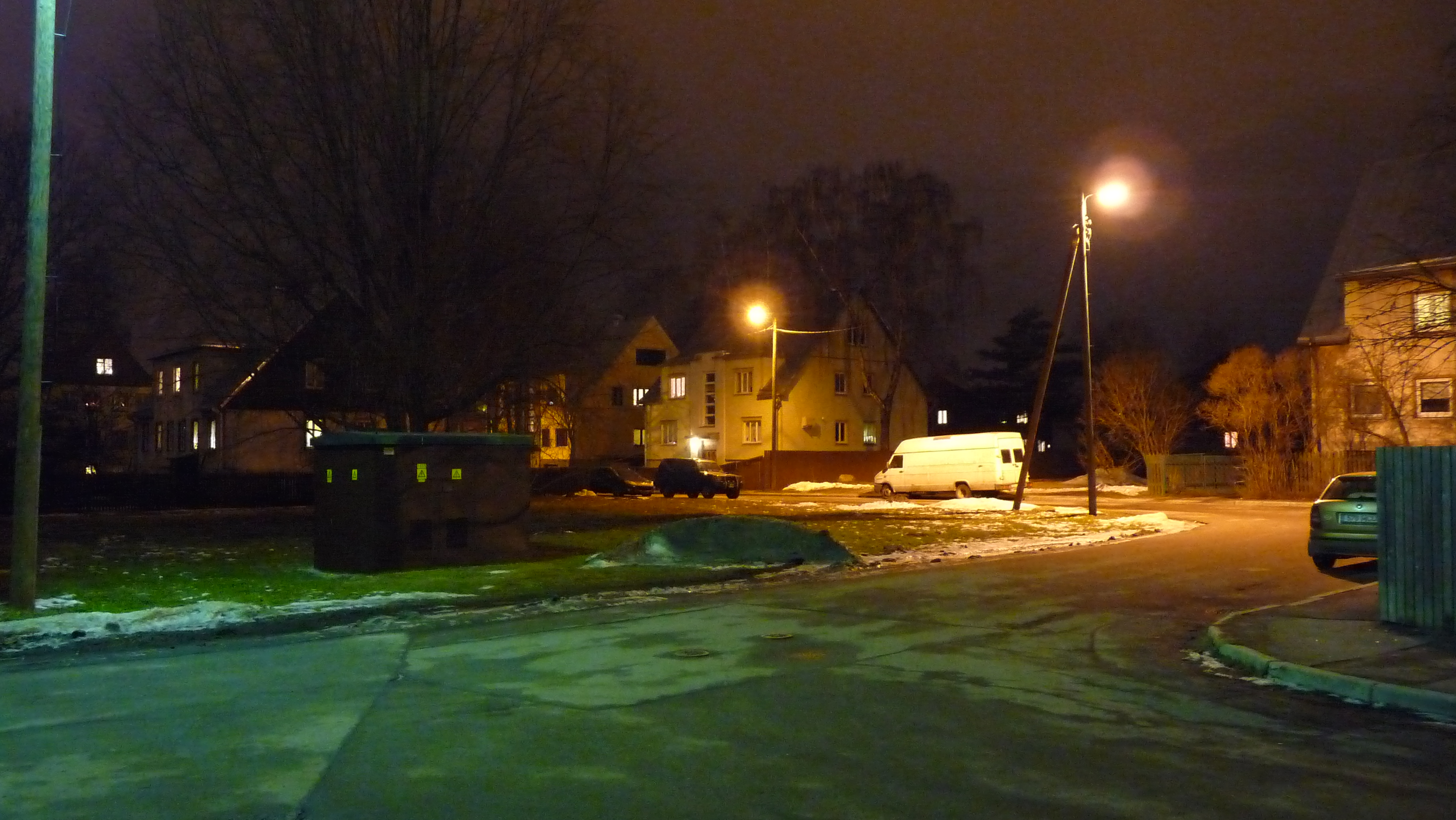 Taime street in Tallinn, Estonia